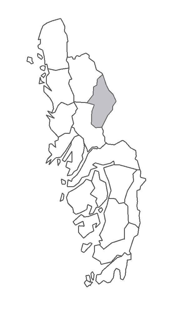 Map describing the location of Sörbygden Hundred in Bohuslän Province, Sweden.